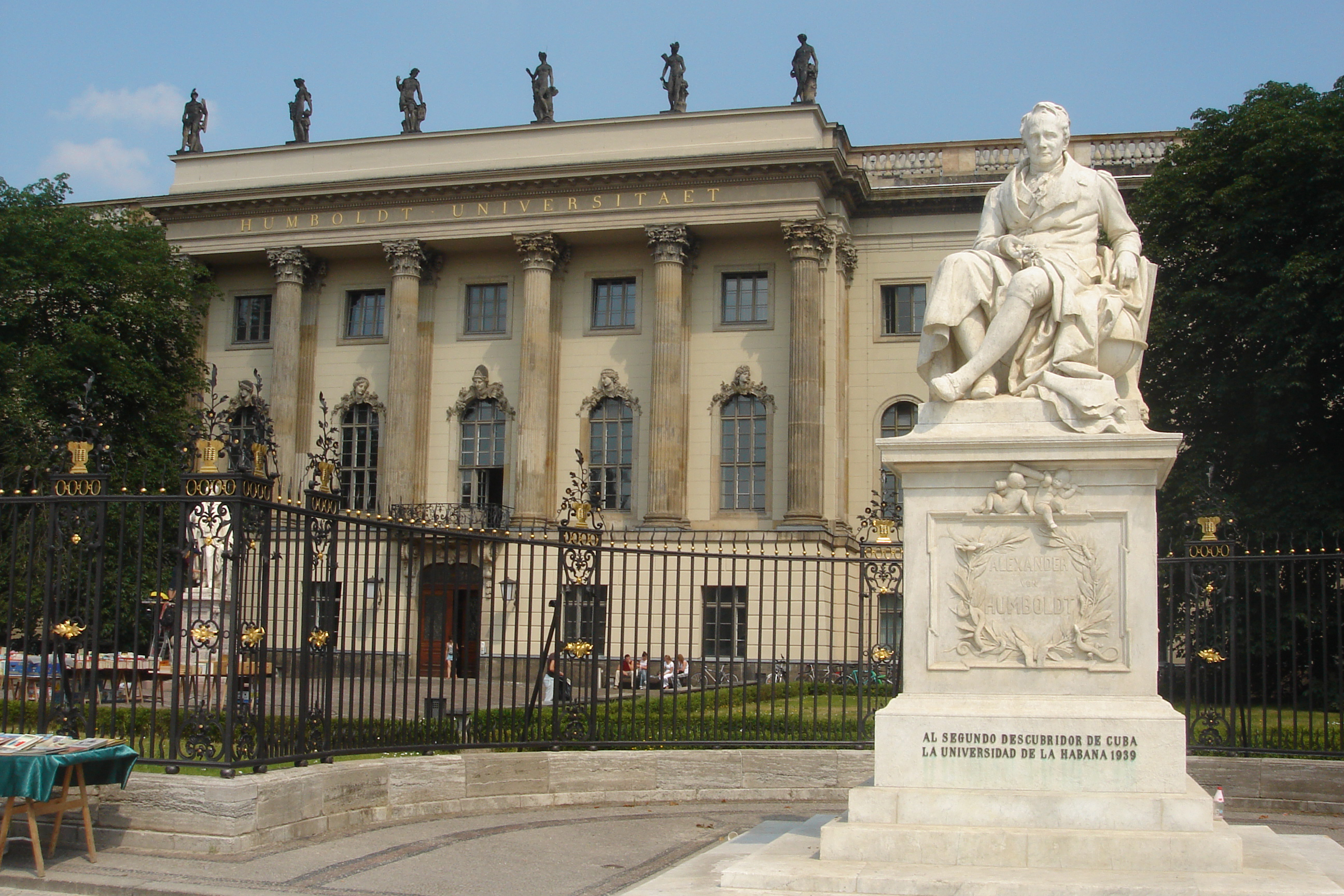 Humboldt University of Berlin